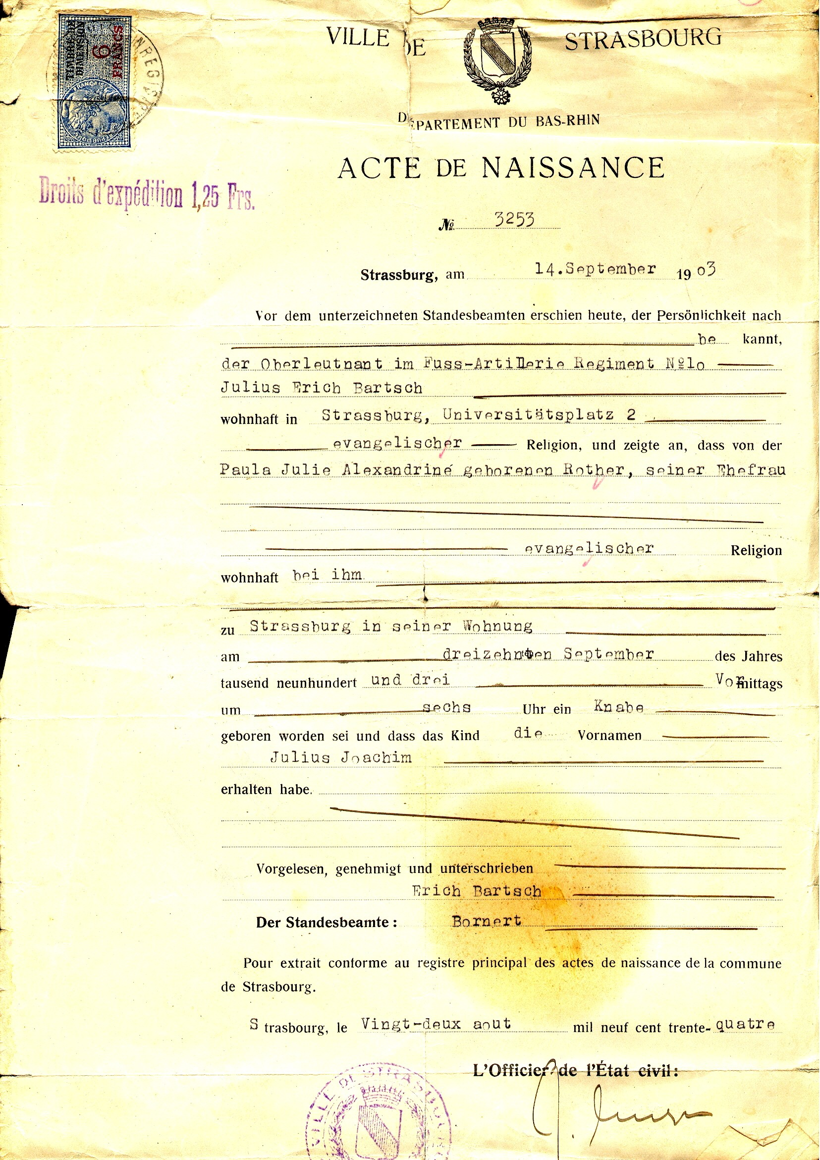 Birth certificate of Julius Joachim Bartsch